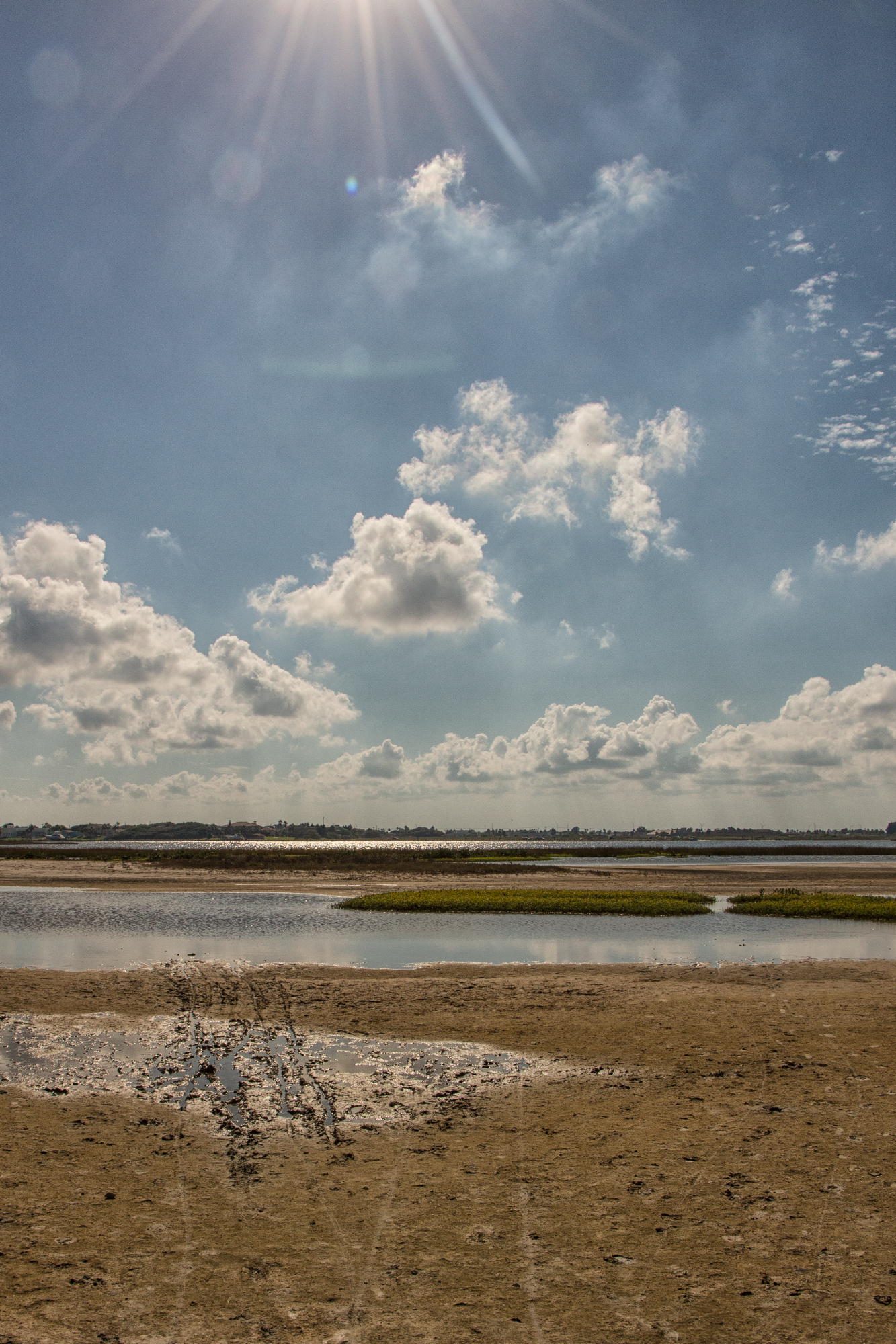 Near Corpus Christi, Texas